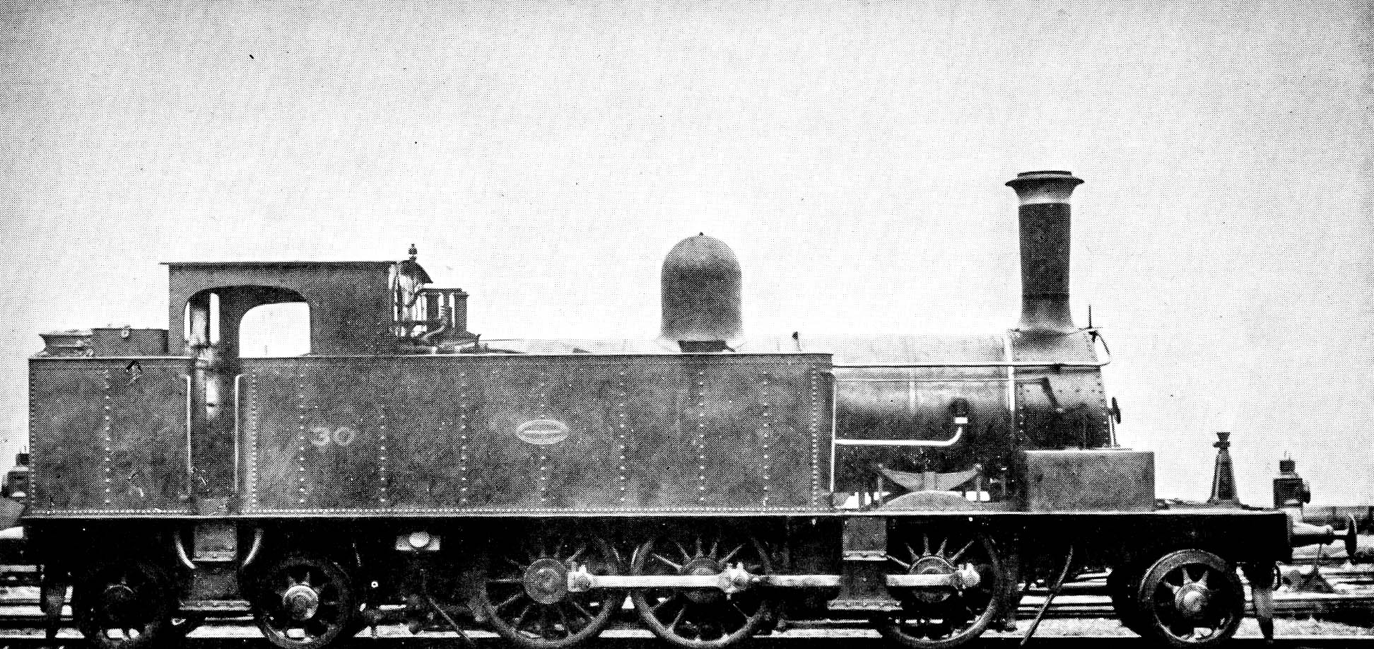 NSWGR Class Z20 Locomotive